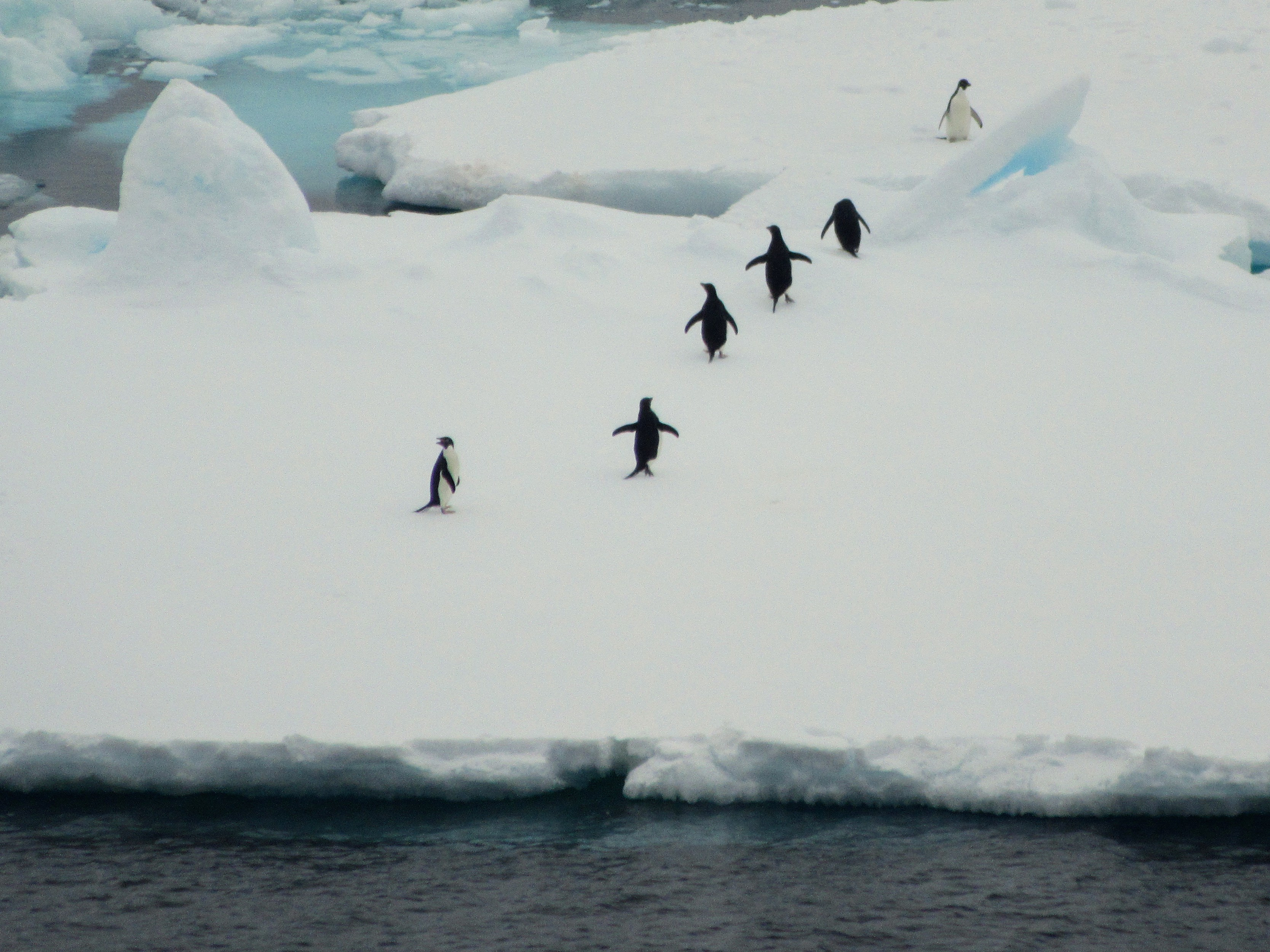 Photo from the Antarctic scientific expedition.